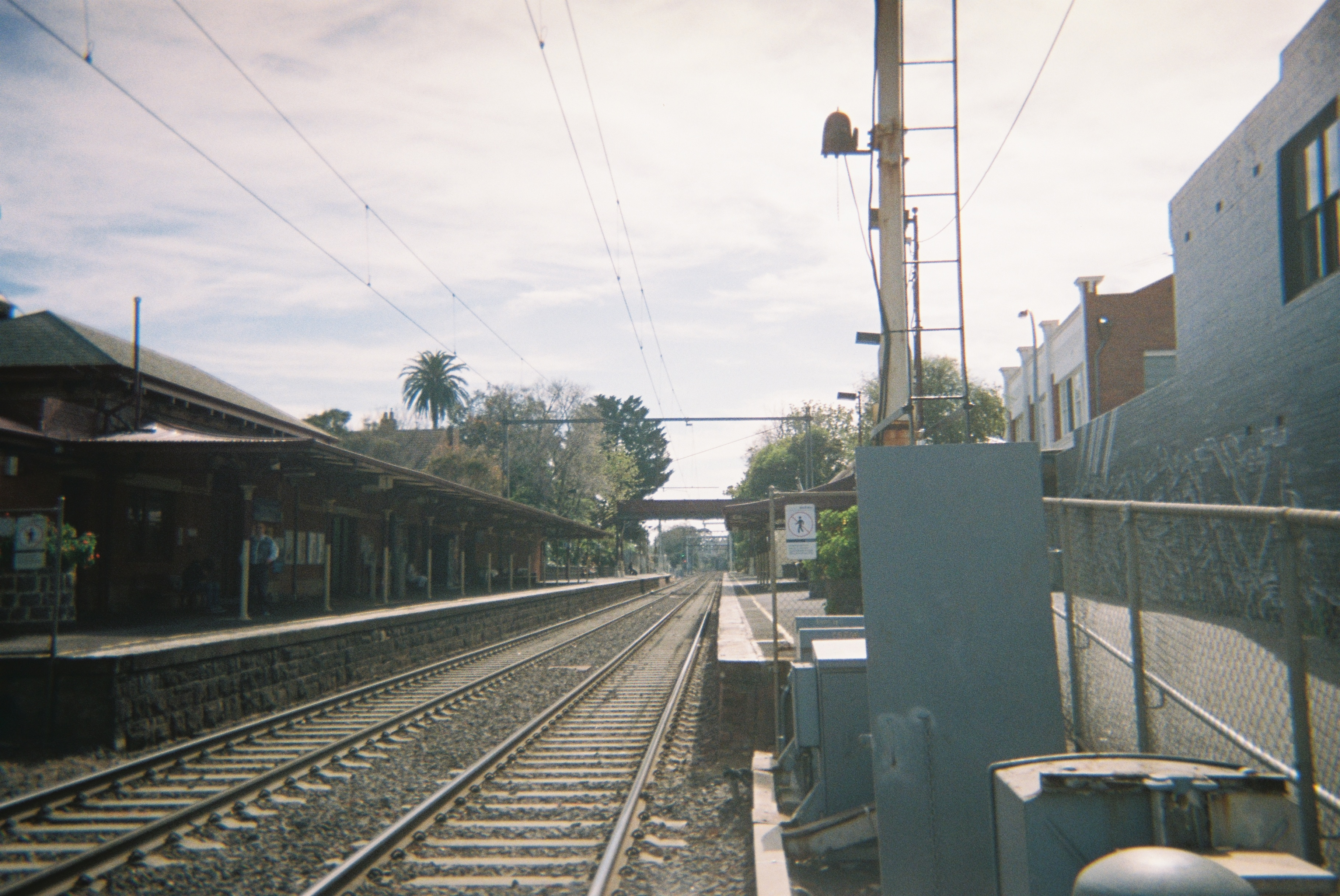 2017 MB